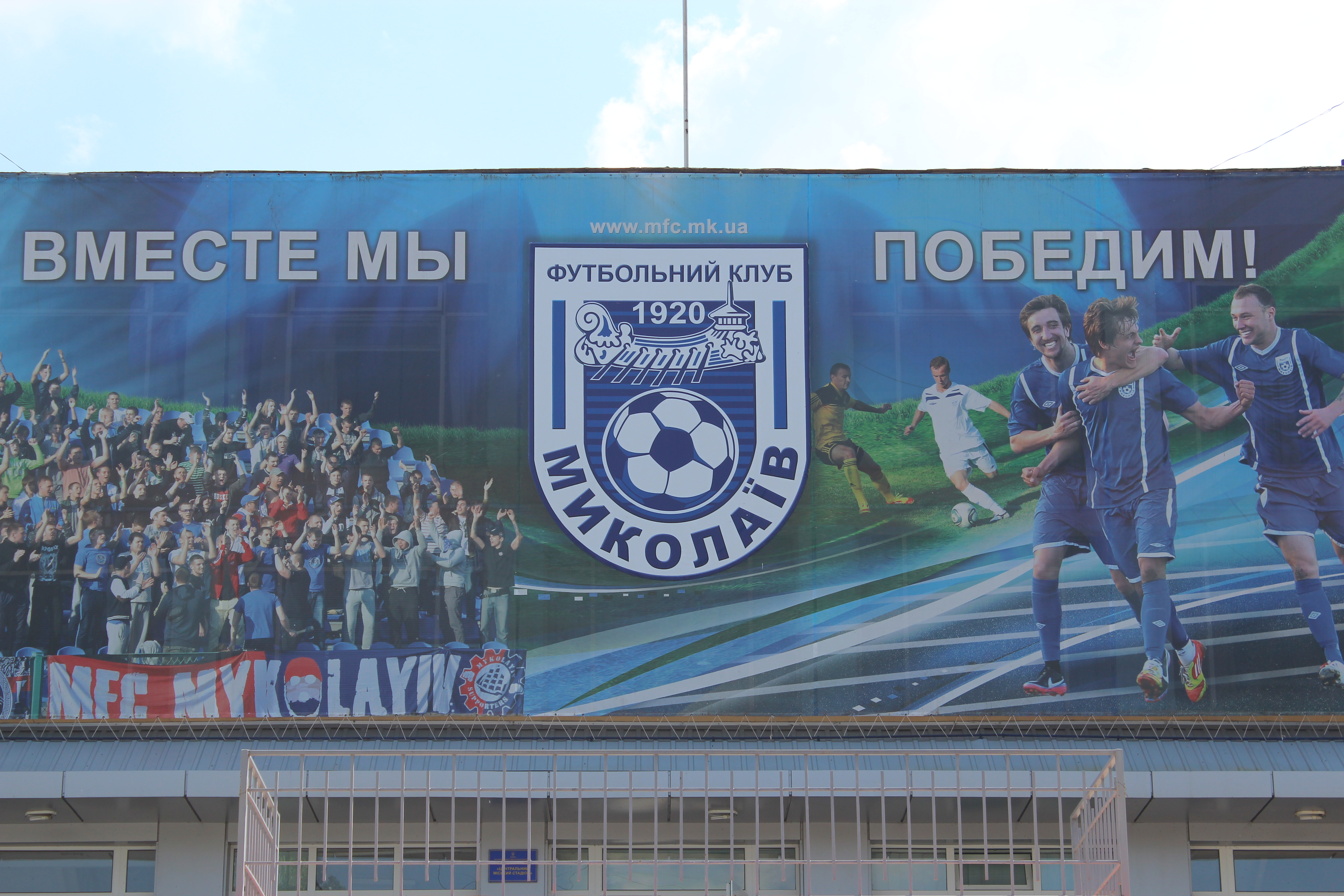 Central City Stadium. Mykolaiv, Ukraine.